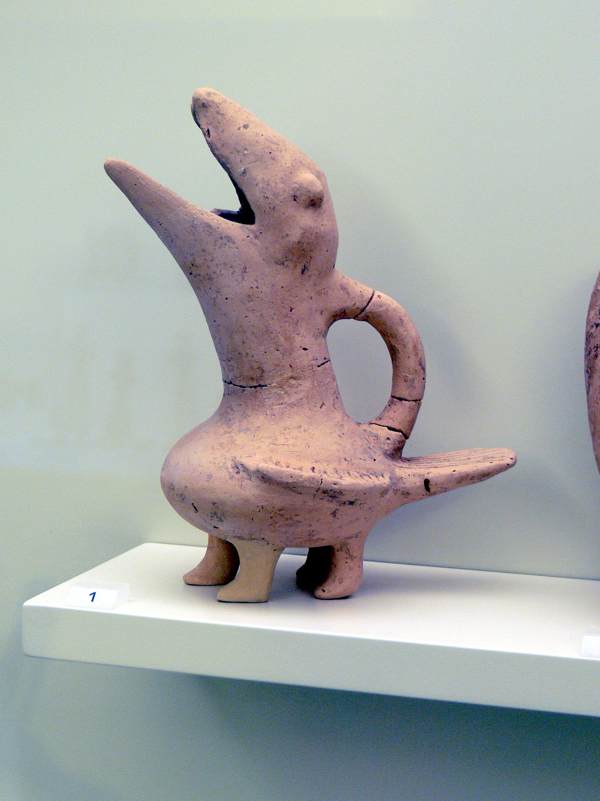 Archaeological Museum of Herakleion. Bird as pottery. Prepalatial period ( 3300-2100 B.C. )